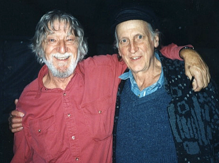 In 1954 Alex Hood & Chris Kempster were among the members of The Bushwhackers, the founders of the Bush Music Club, Australia's oldest folk club. Photographer: Sandra Nixon. This image is a lightly edited crop from the original file which is at .